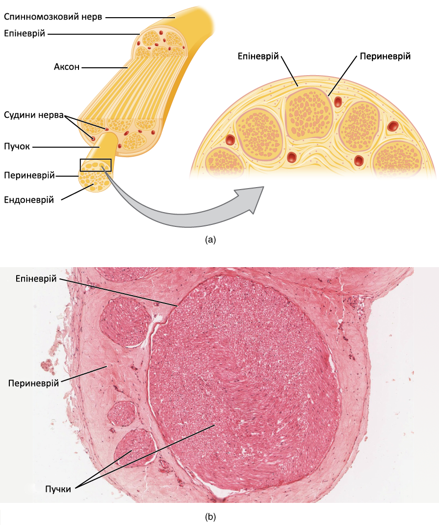 Illustration from Anatomy & Physiology, Connexions Web site. Jun 19, 2013.